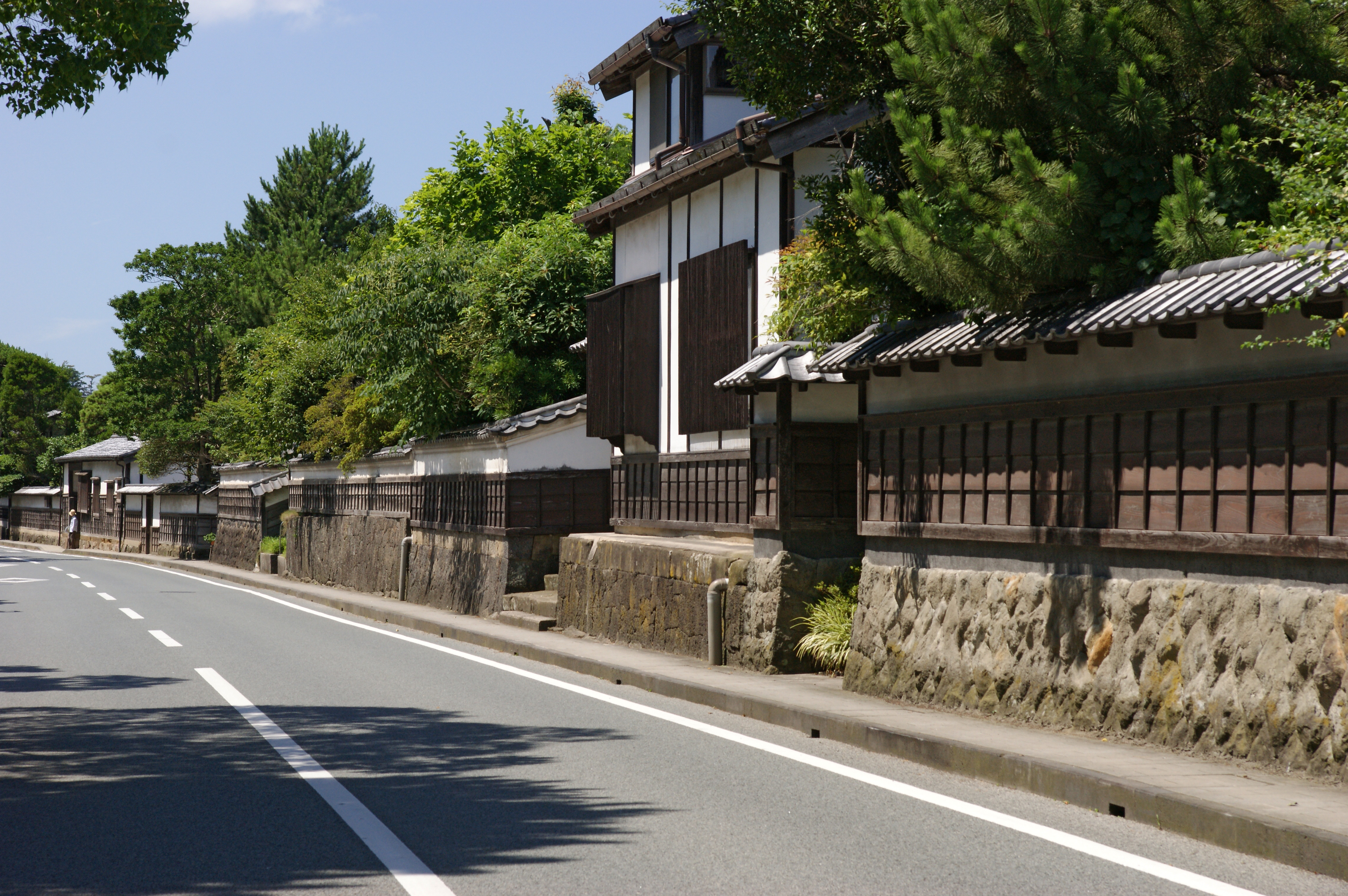 Shiominawate in Matsue, Shimane prefecture, Japan